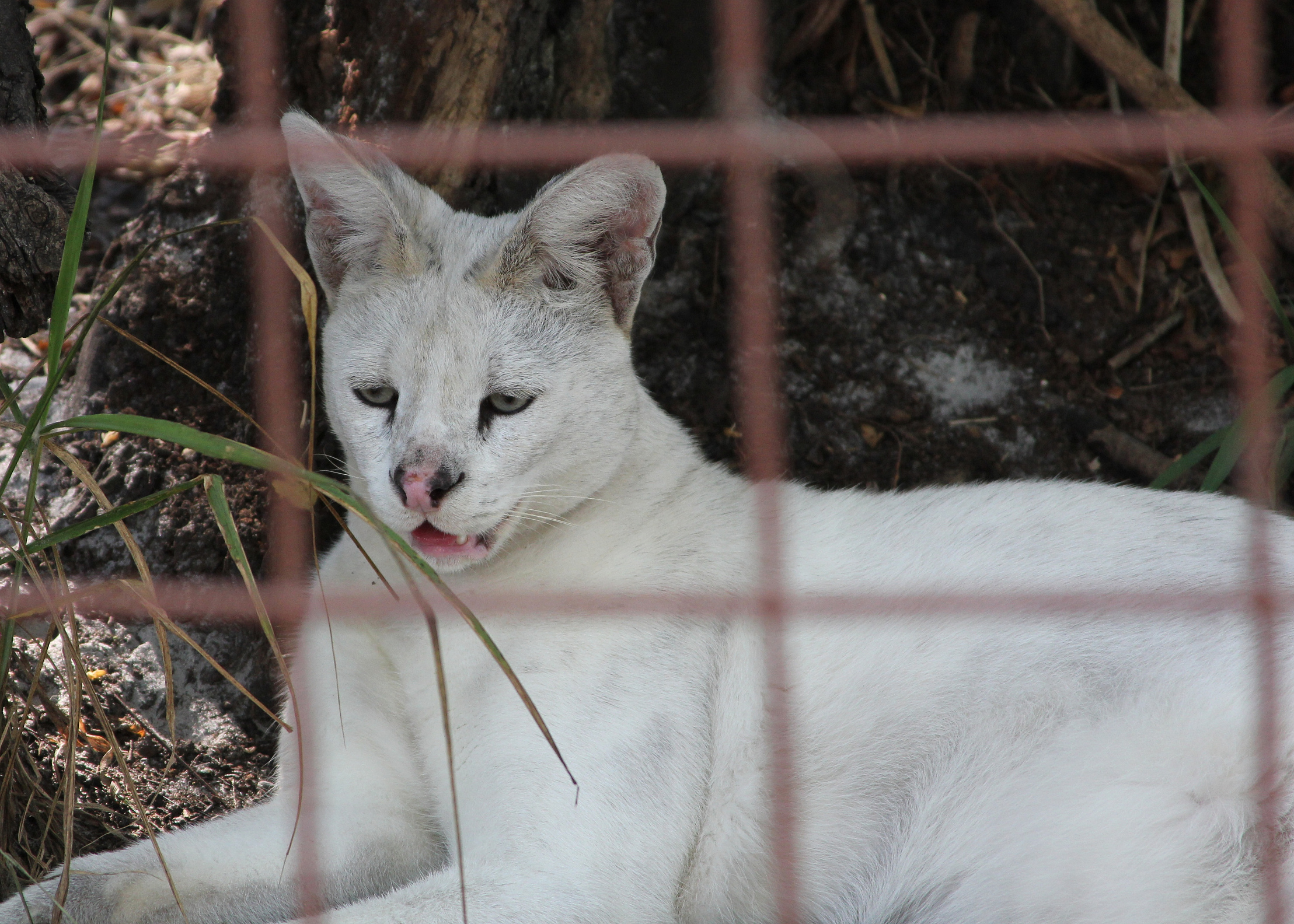 A rare white serval (Leptailurus serval) at Big Cat Rescue in Tampa, FL.